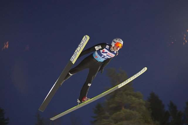 Jurij Tepeš during canceled competition of FIS Ski-Flying World Championships 2012 in Vikersund